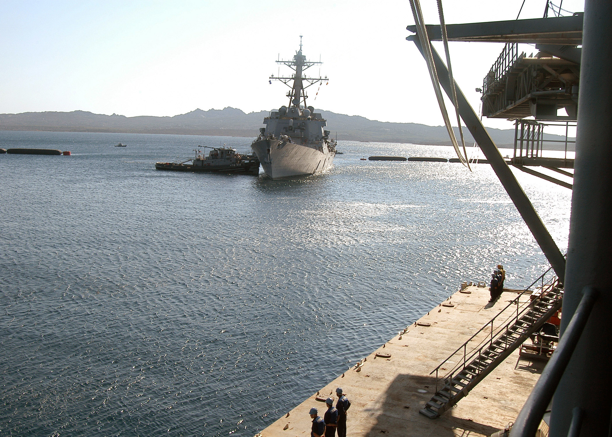 LA MADDALENA, Italy (July 28, 2007) - Sailors assigned to the USS Emory S. Land (AS 39) await the arrival of guided-missile destroyer USS Roosevelt (DDG 80) for a voyage repair availability period. Emory S. Land is a forward-deployed submarine tender stationed in La Maddalena, Italy. U.S. Navy photo by Mass Communication Specialist Seaman Samantha Stark (RELEASED)